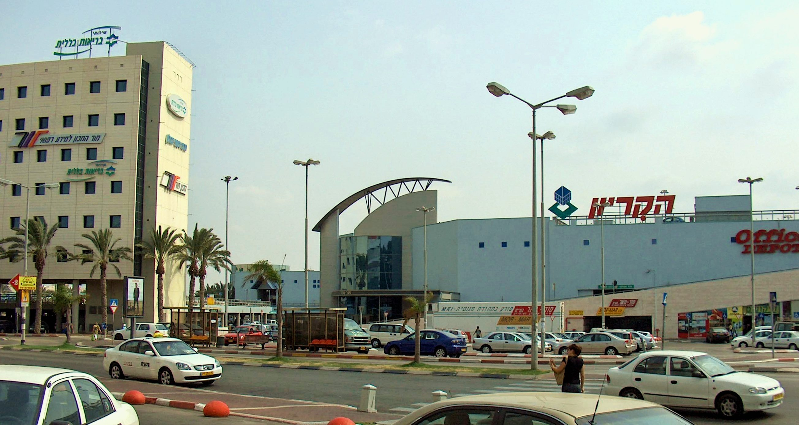 The Kiryon - A huge shopping mall in Kiryat Bialik, Israel. A view of its northern side and next to it, one of the 2 Kiryon Towers, office and medical clinics buildings.